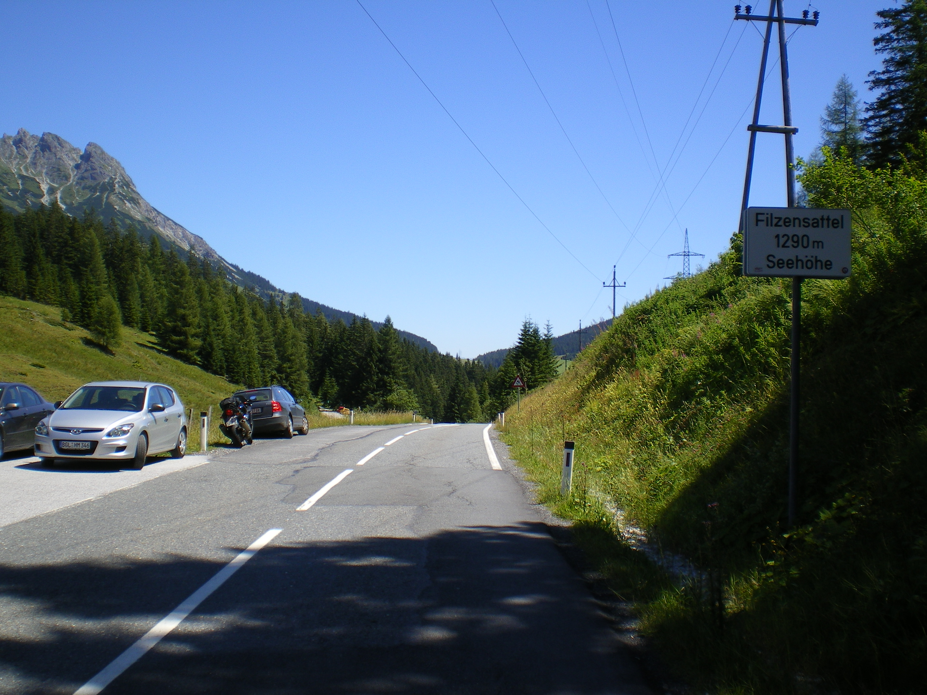 Filzensattel summit, coming from the west